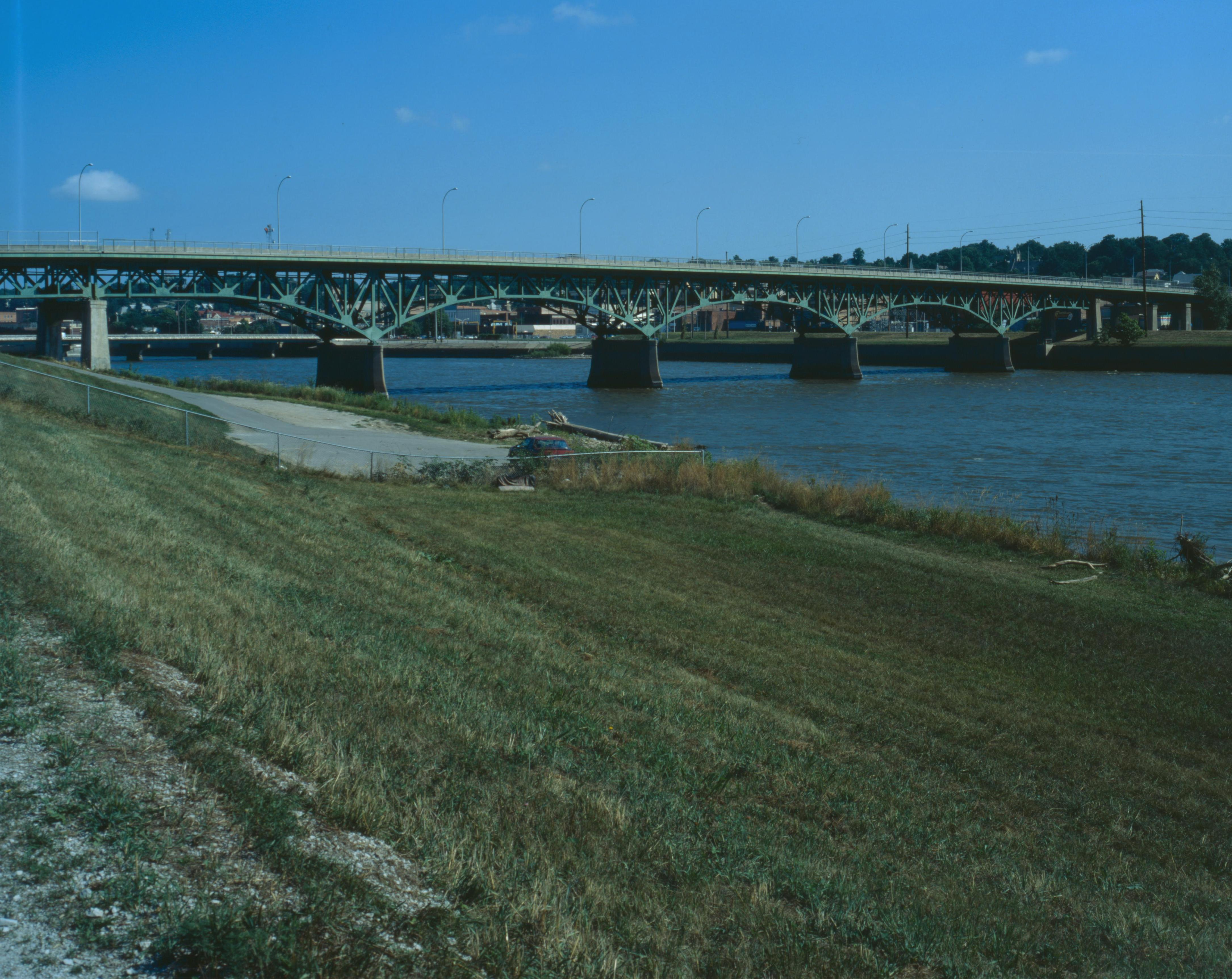 Eastern (downstream) side of the Jefferson Street Viaduct, which carries Jefferson Street over the Des Moines River at Ottumwa, Iowa, United States. Built in 1935, this Warren deck truss bridge is listed on the National Register of Historic Places.